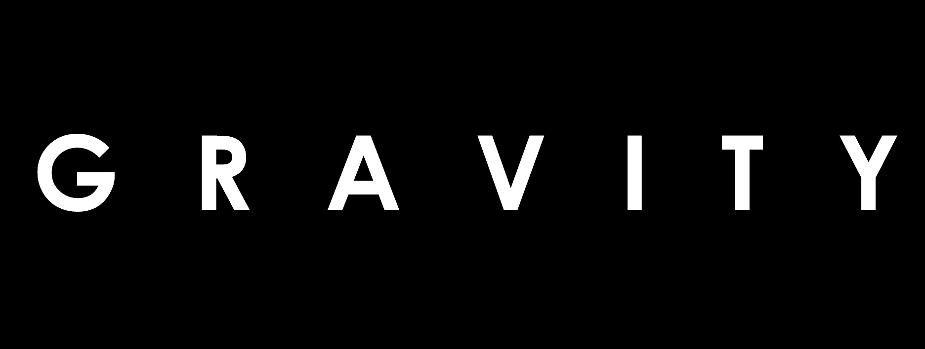 Gravity película